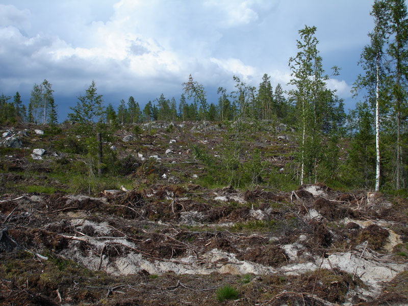 Soil scarification for regeneration of clear-cut. Bergmyrberget N Stenberg, Nordmaling municipality, Sweden.